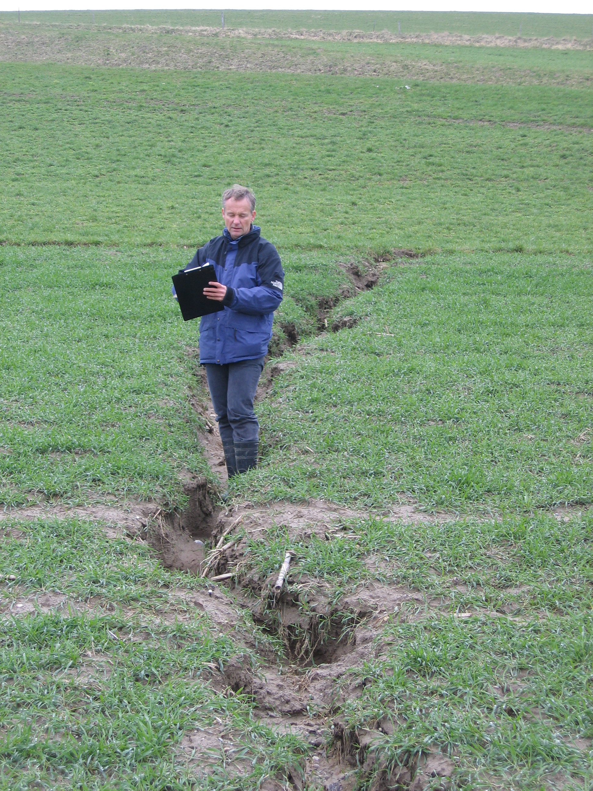 Erosion channels, canton of Bern, Switzerland